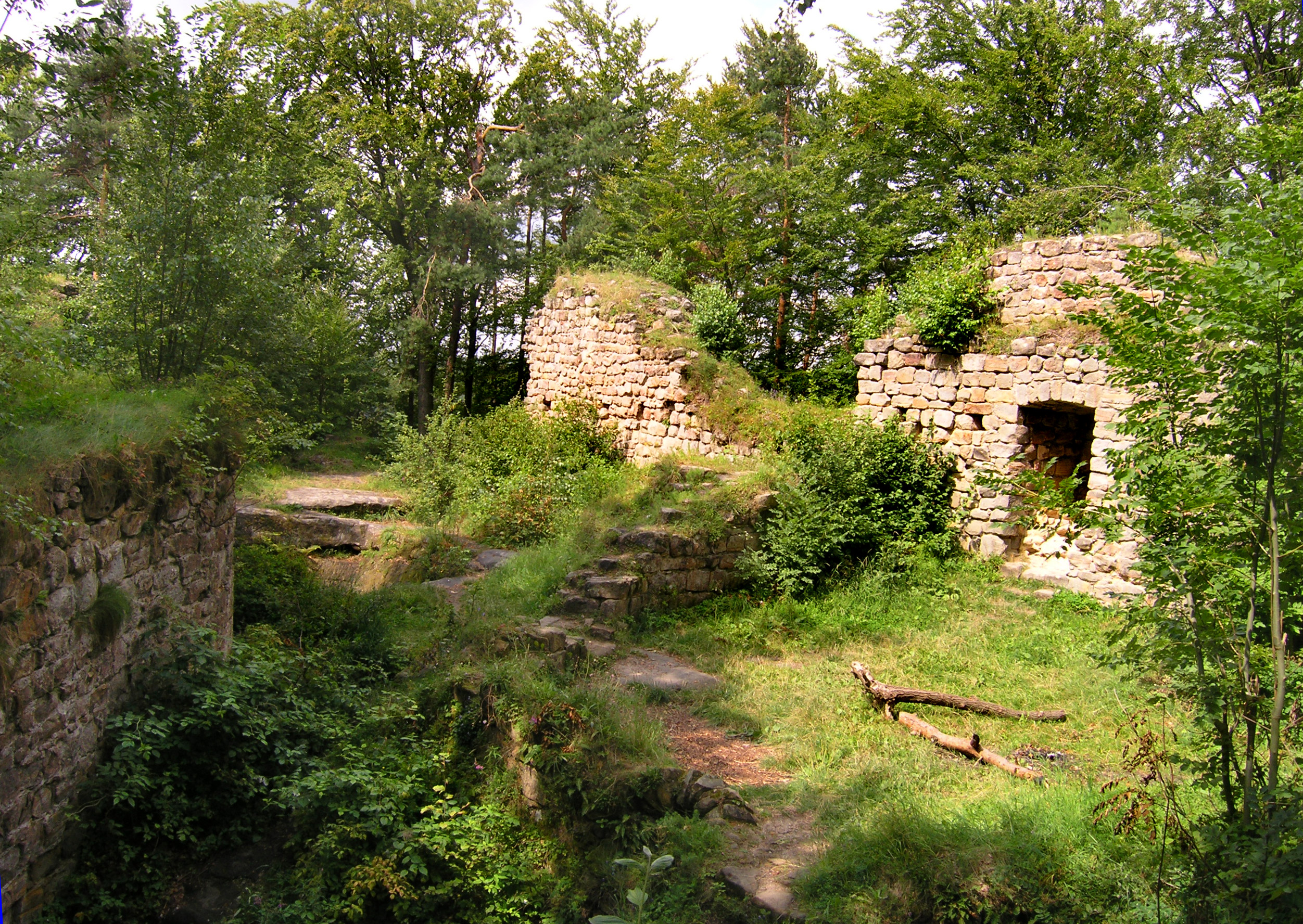 The ruins of Zbirohy castle in Koberovy village, Czech Republic